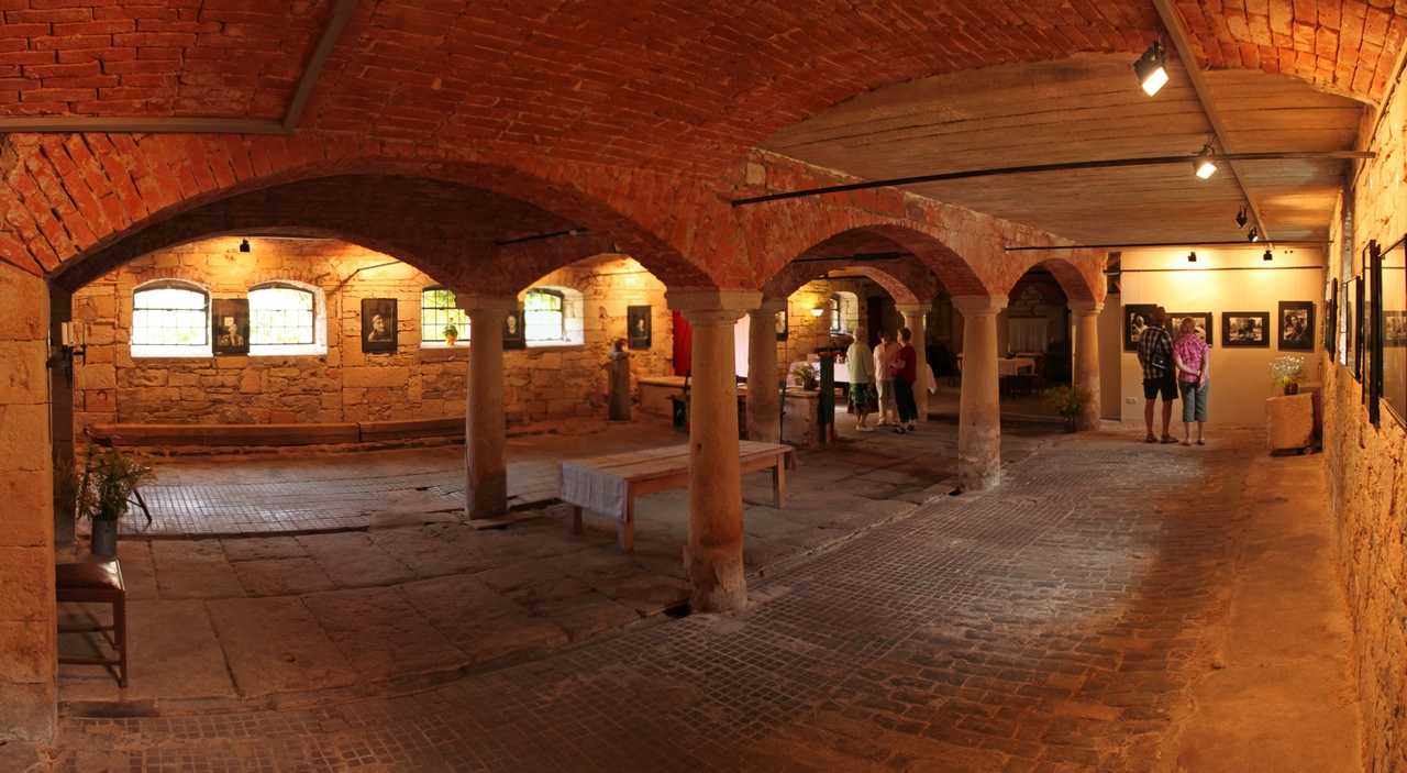 This photo shows the former stable (built 1768) of a historical farm in Goppeln near Dresden. It is one of the oldest buildings in Goppeln. The stable is nowadays used as art gallery.